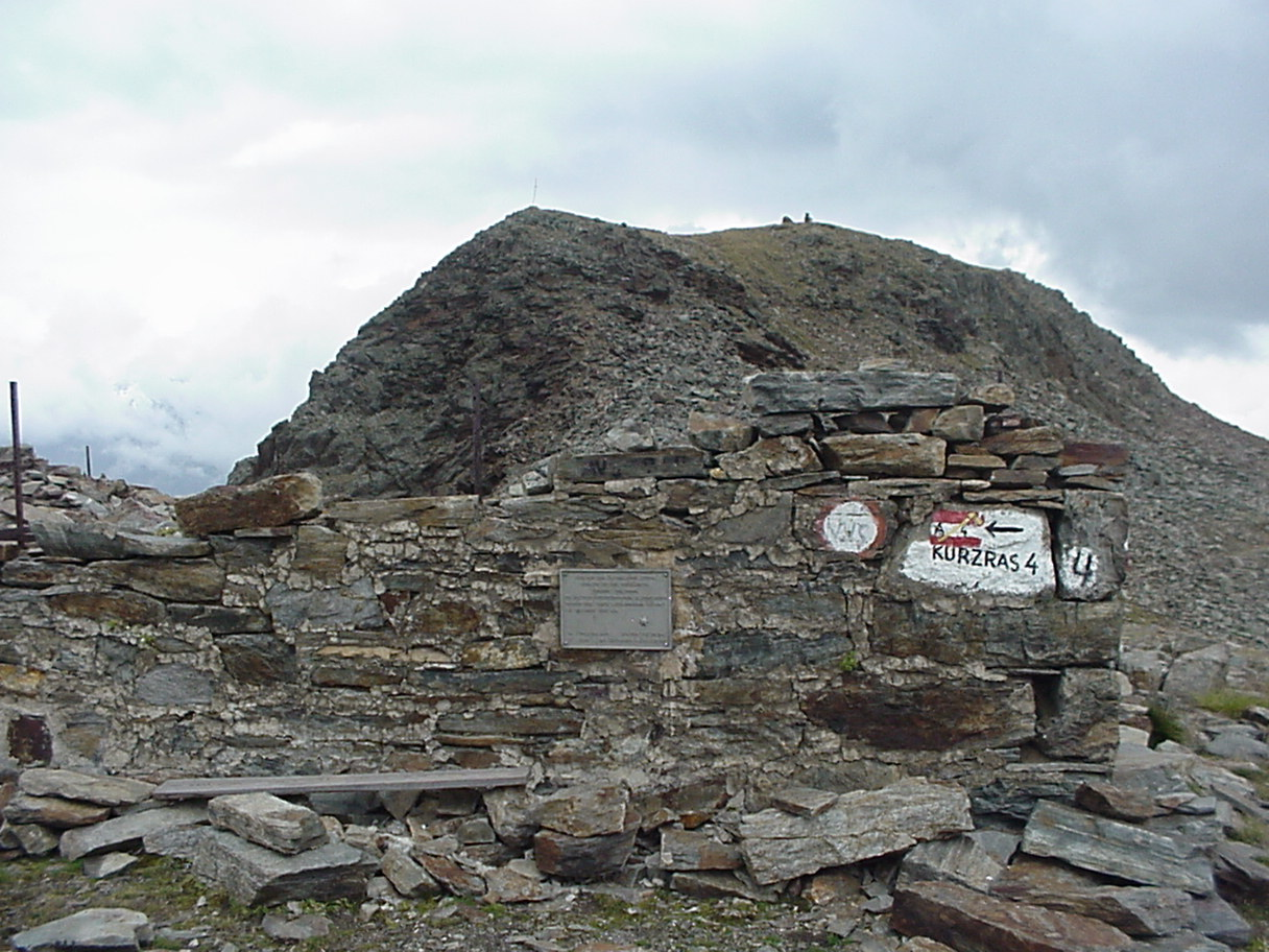 Ruins of Heilbronner Hütte, Tascheljöchl